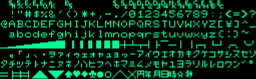 Character set of NEC PC-8001, one of JIS X 0201 implementation, as renderd in 8×8 pixel system font.